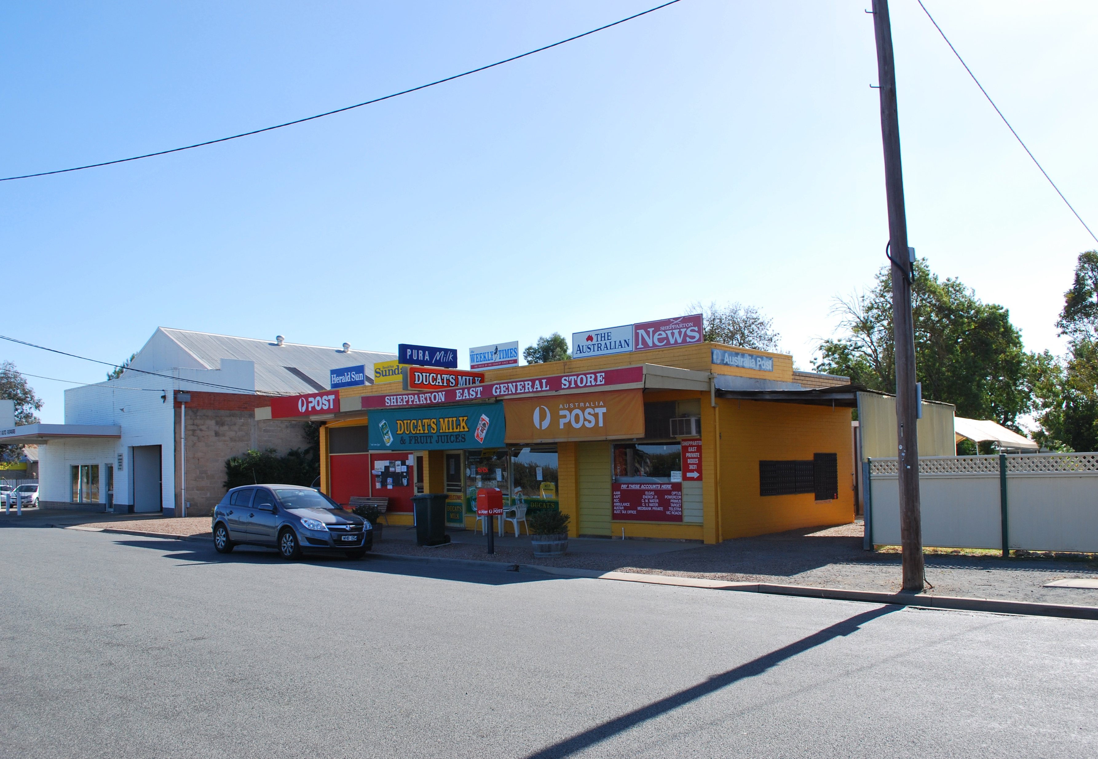 General Store and post office at Shepparton East, Victoria